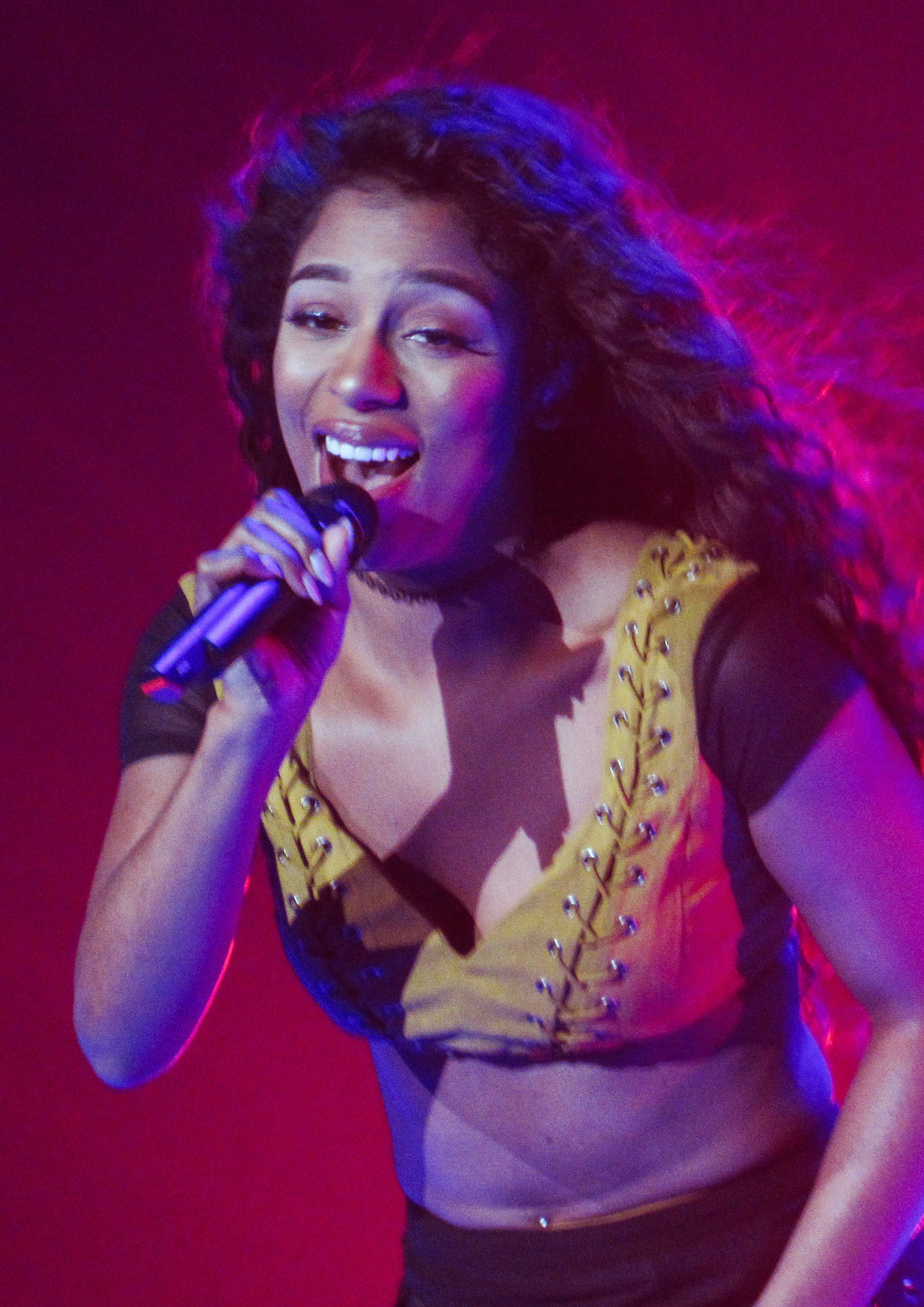 Dangerous Woman Tour 2/19/17 Ariana Grande performing during Dangerous Woman Tour in Manchester, New Hampshire, SNHU Arena, on February 19, 2017.